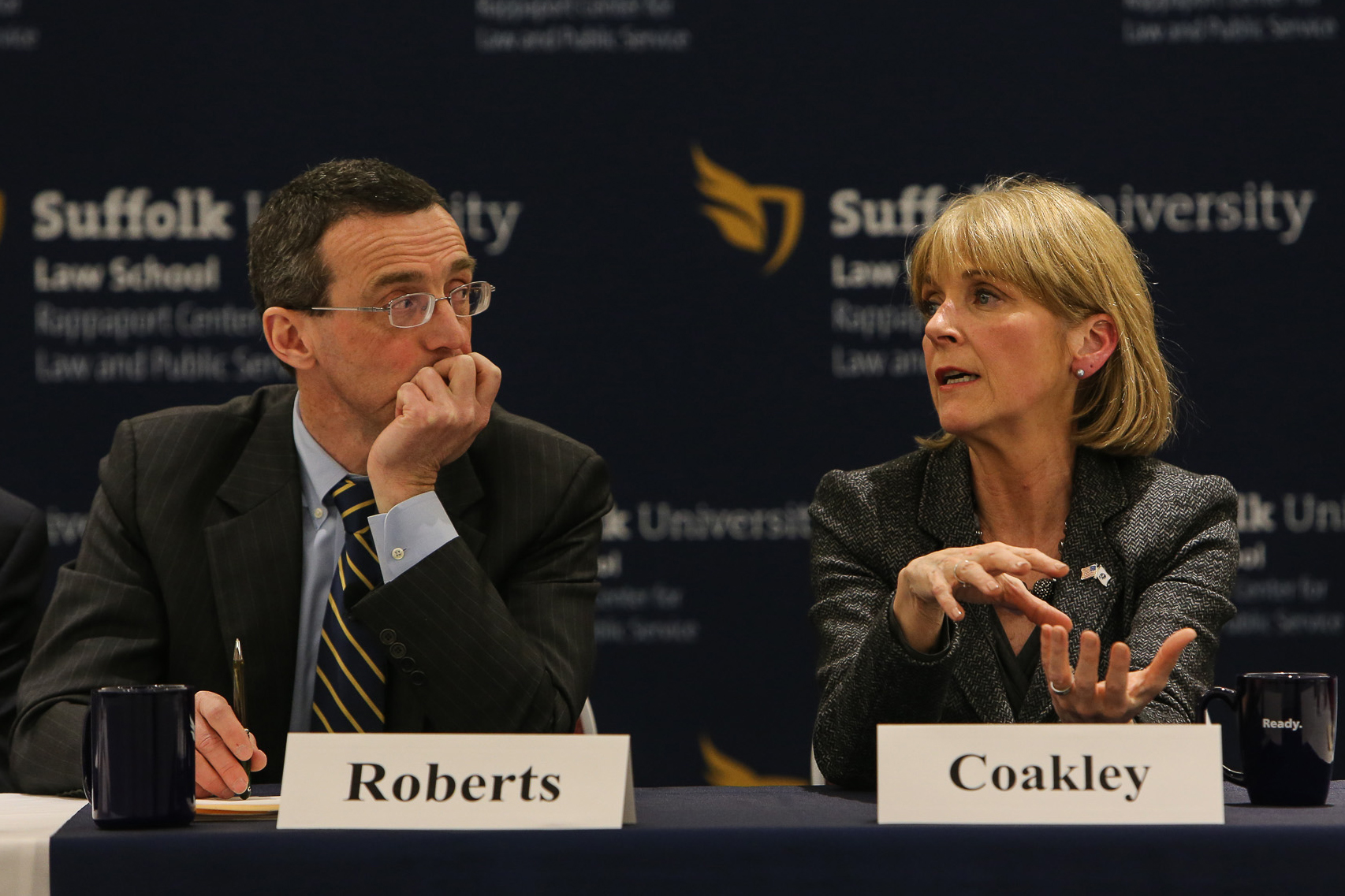 Massachusetts Attorney General Martha Coakley spoke at the fifth roundtable for gubernatorial candidates hosted by the Rappaport Center for Law and Public Service, February 11, 2014. Alasdair Roberts, Rappaport Professor of Law and Public Policy, hosted the roundtable.